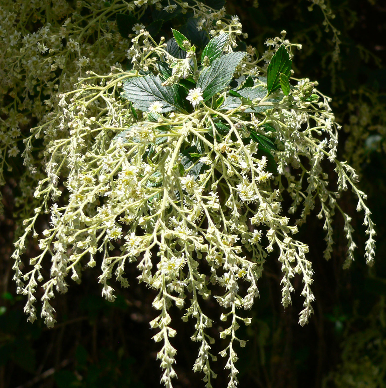 Holodiscus argenteus at the University of California Botanical Garden, Berkeley, California